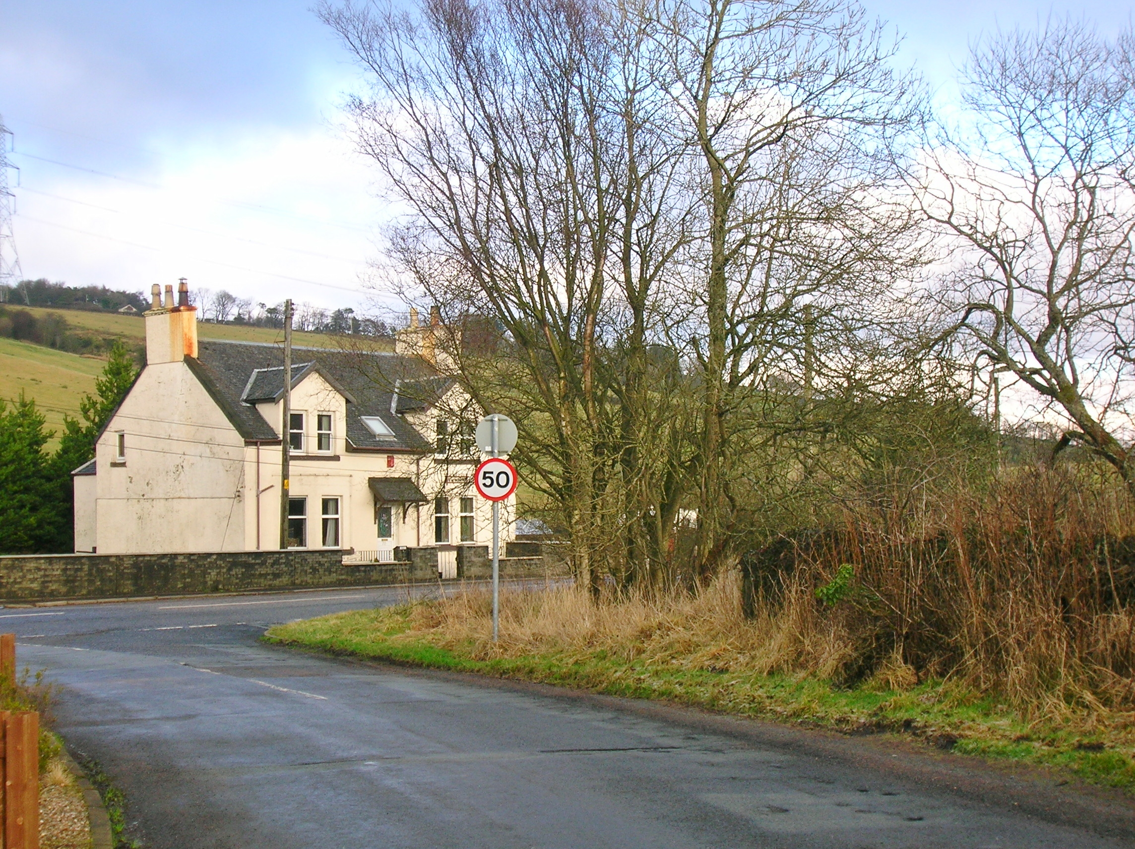 Shillford. Site of old toll house to the right. East Renfrewshire, Scotland.